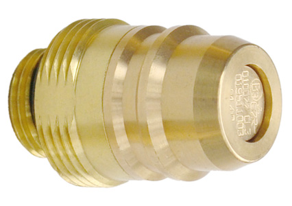 Euronozzle adapter